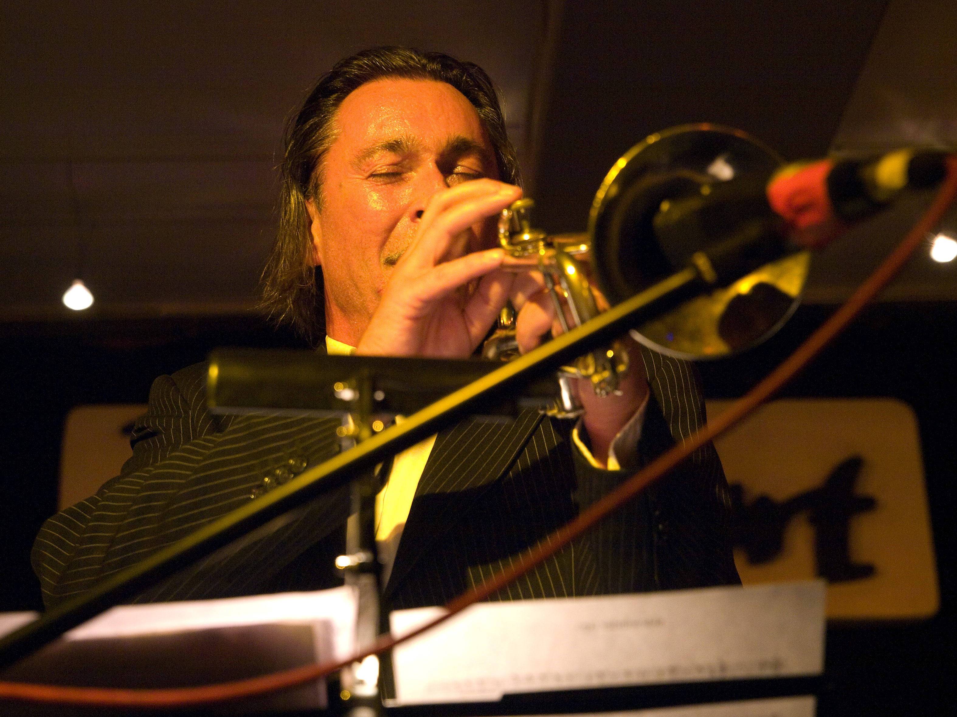 Peter Tuscher, Jazz trumpeter; Picture taken in Jazz Club Unterfahrt, Munich/Bavaria